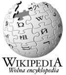 Logo of the Polish Wikipedia